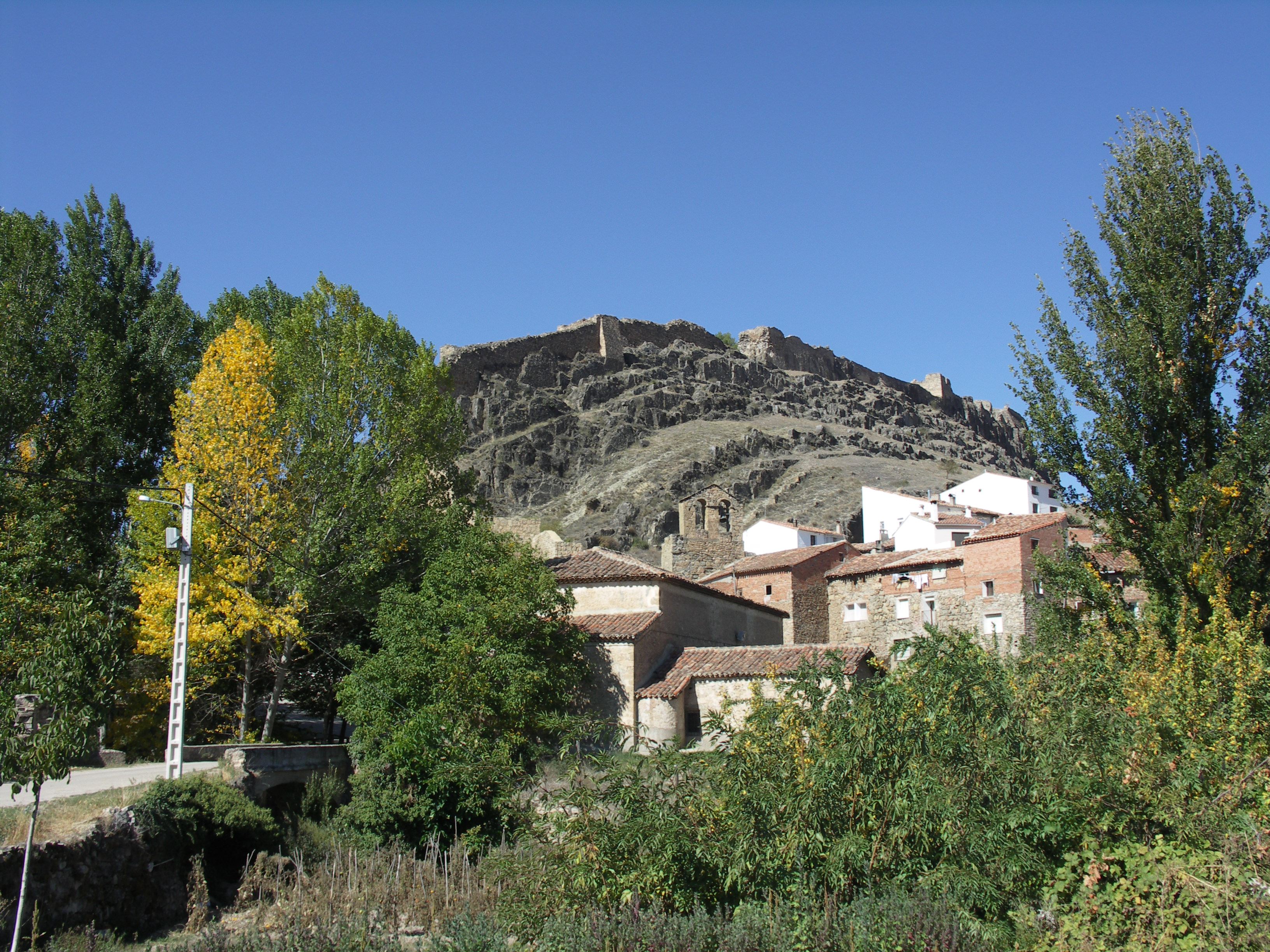 Cañete castle (Cuenca. Spain)